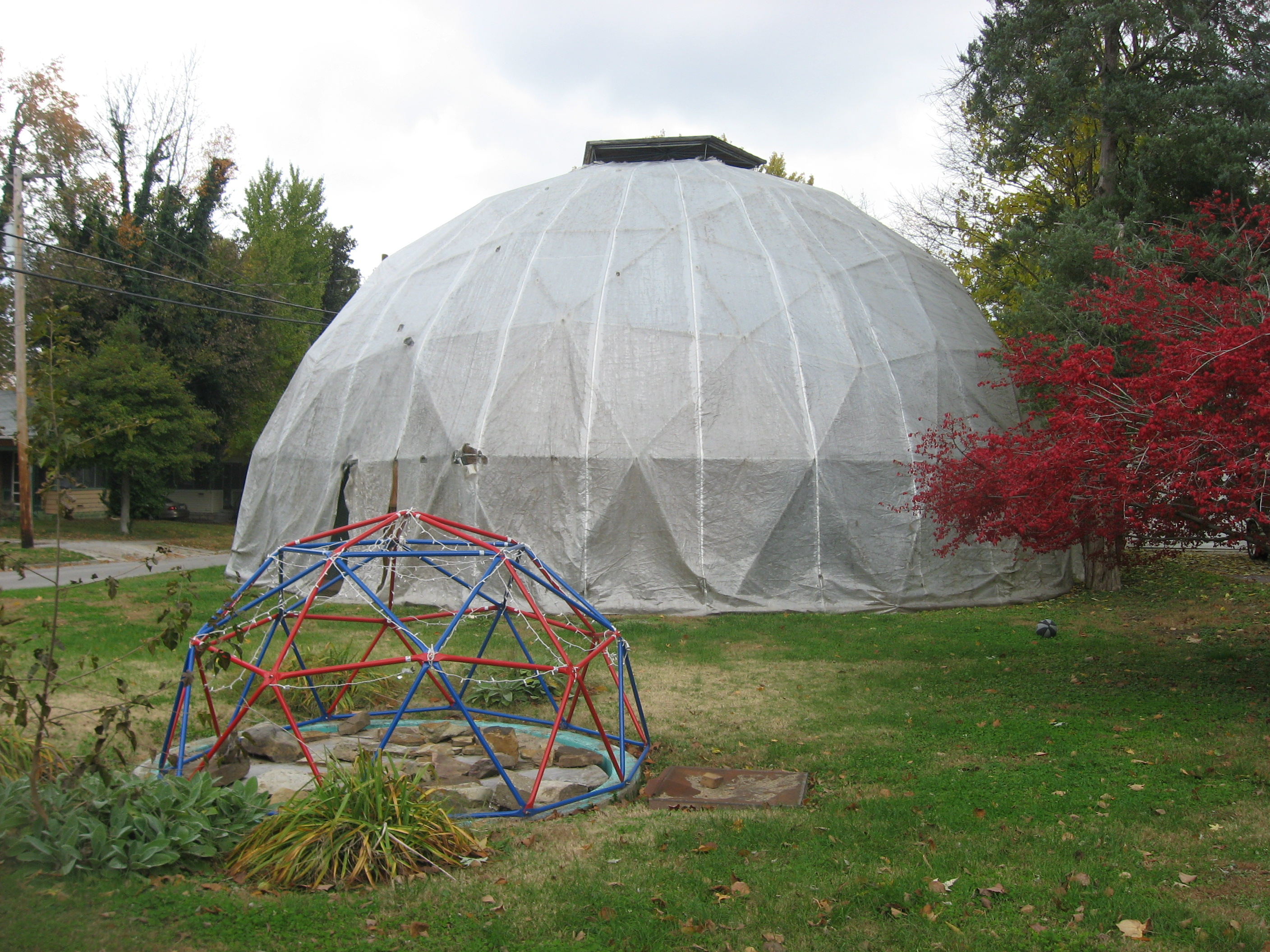 View from the south of the R. Buckminster Fuller and Anne Hewlett Dome Home, located at 407 S. Forest Avenue in Carbondale, Illinois, United States. Built in 1960, it is listed on the National Register of Historic Places.